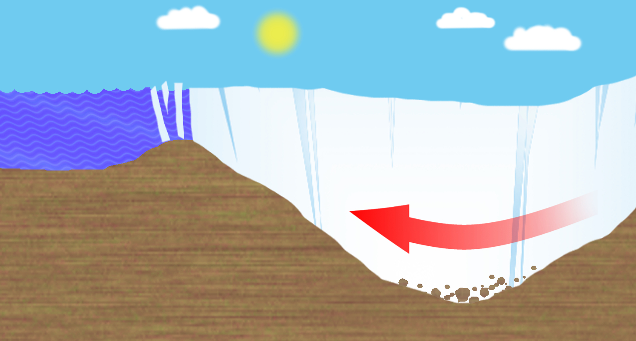 This JPG graphic was created with GIMP. Illustration of how a fjord is created, no text - Information for this image can be found in the book: Geografi A-kurs, Peter Östman, Olof Barrefors, Kalju Luksepp, sid 125, Liber AB, 2005, ISBN: 91-21-21110-8